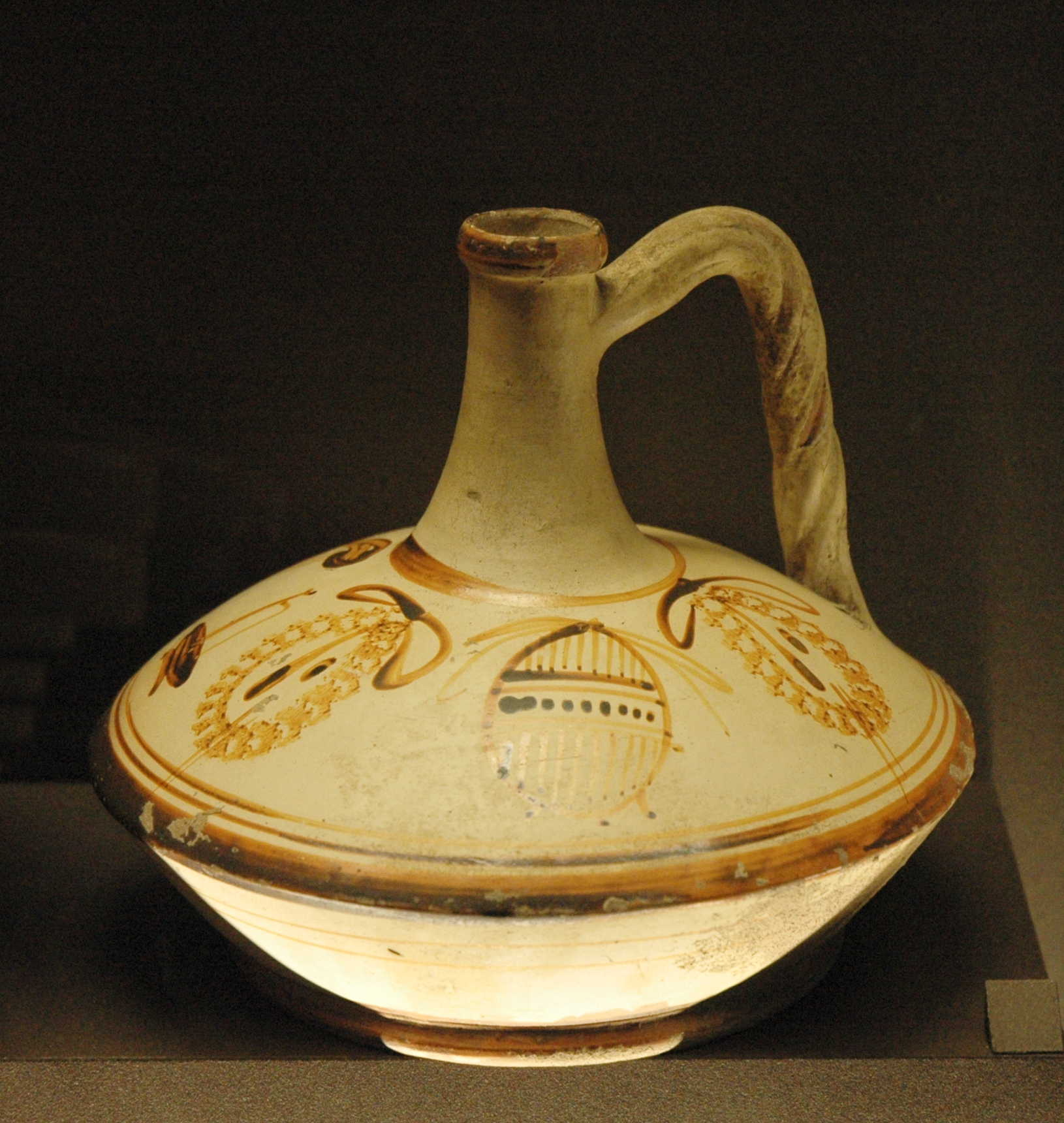 Lagynos with music instruments, ca. 150–100 BC. From Cyrenaica.